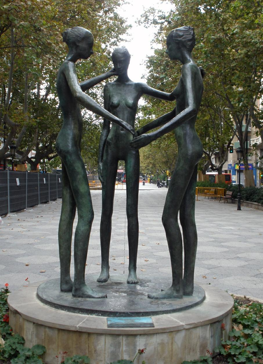 'Complicidad', de Alberto Gómez Ascaso, obra donada a la ciudad de Zaragoza por la Fundación San Valero y la Fundación SAMCA en 2003. Escultura ubicada en la Gran Vía de Zaragoza (Aragón, España)